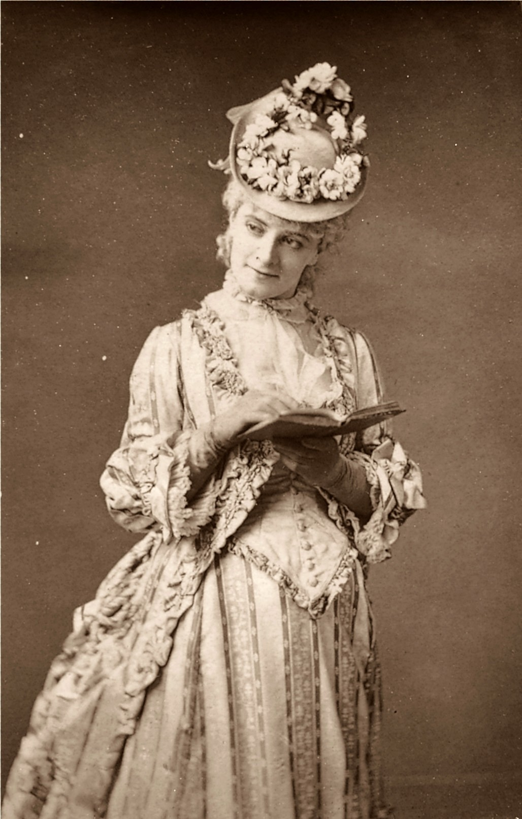 Emily Fowler (1847-1897), English Actress and Singer.